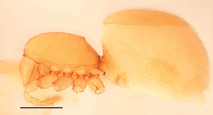 Bannana crassispina female. Habitus, lateral view. Scales bar = 0.4 mm